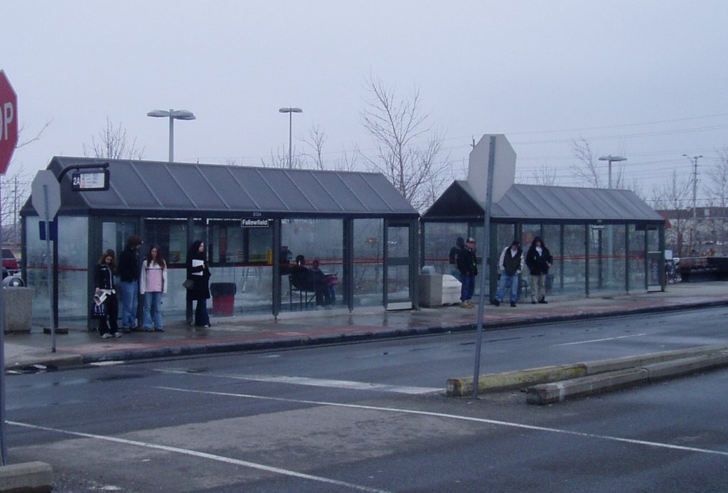 Fallowfield Station (OC Transpo), taken by SimonP